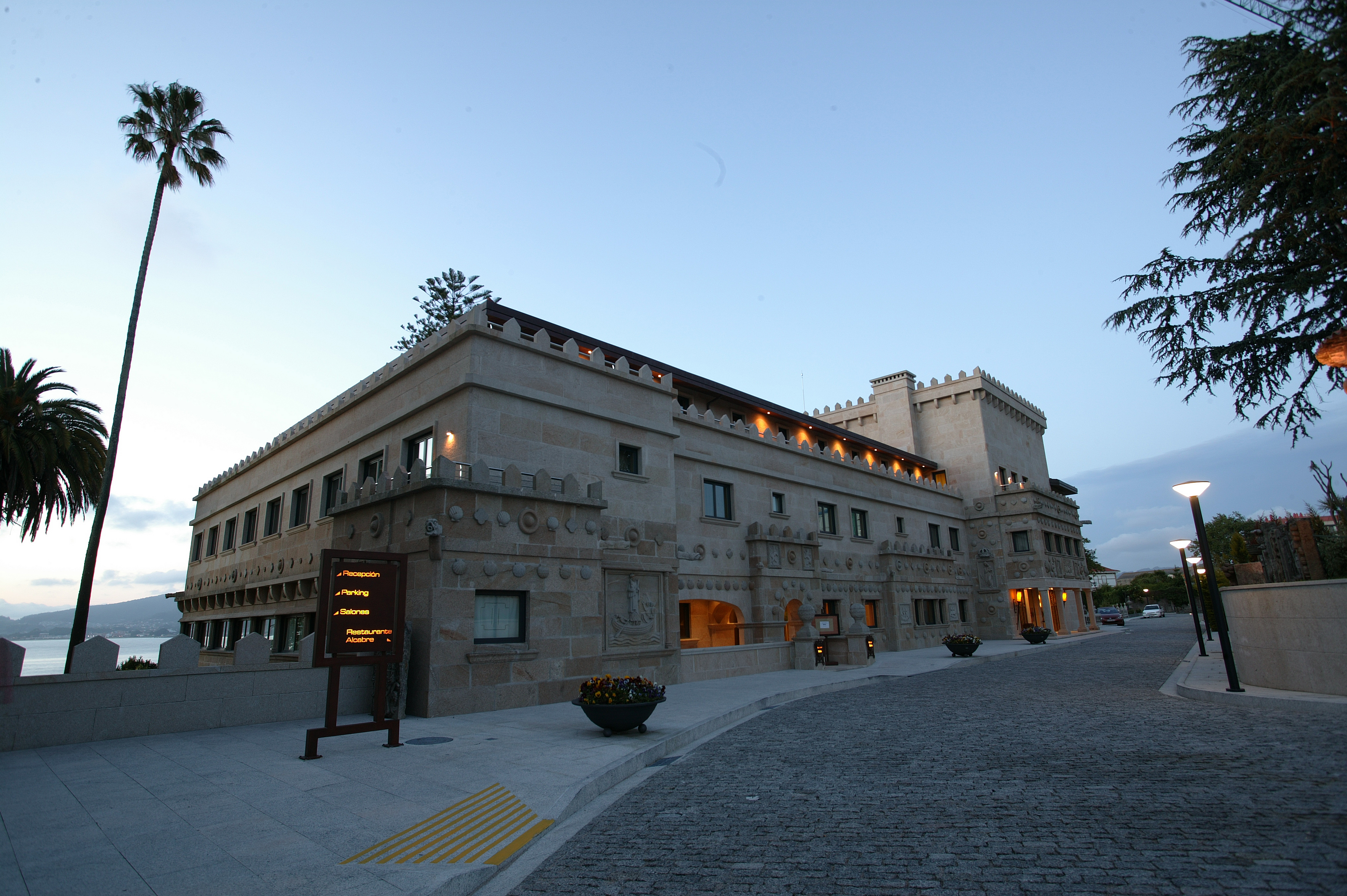 Pazo los Escudos main bulding